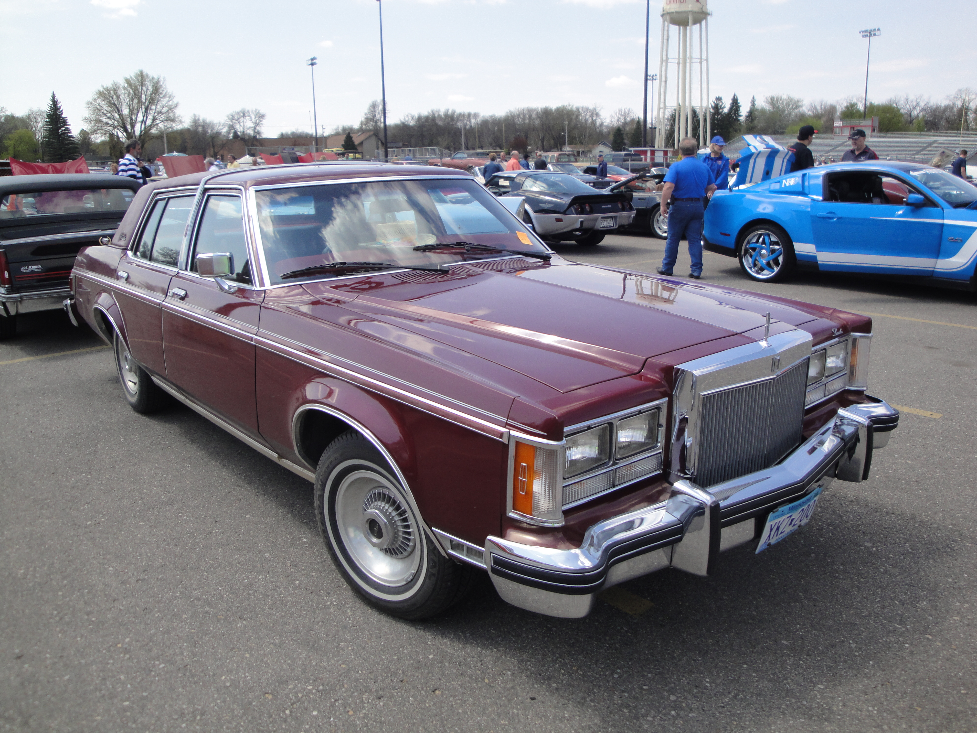 Willmar Car Show & Swap Meet 2014. After a couple of years of bad weather, the car show hit the weather jackpot this year. The only complaint is that it was so busy I did not get as many pictures as I wanted. Car Cruise Videos: Check out the club website for other events: More Car Pictures